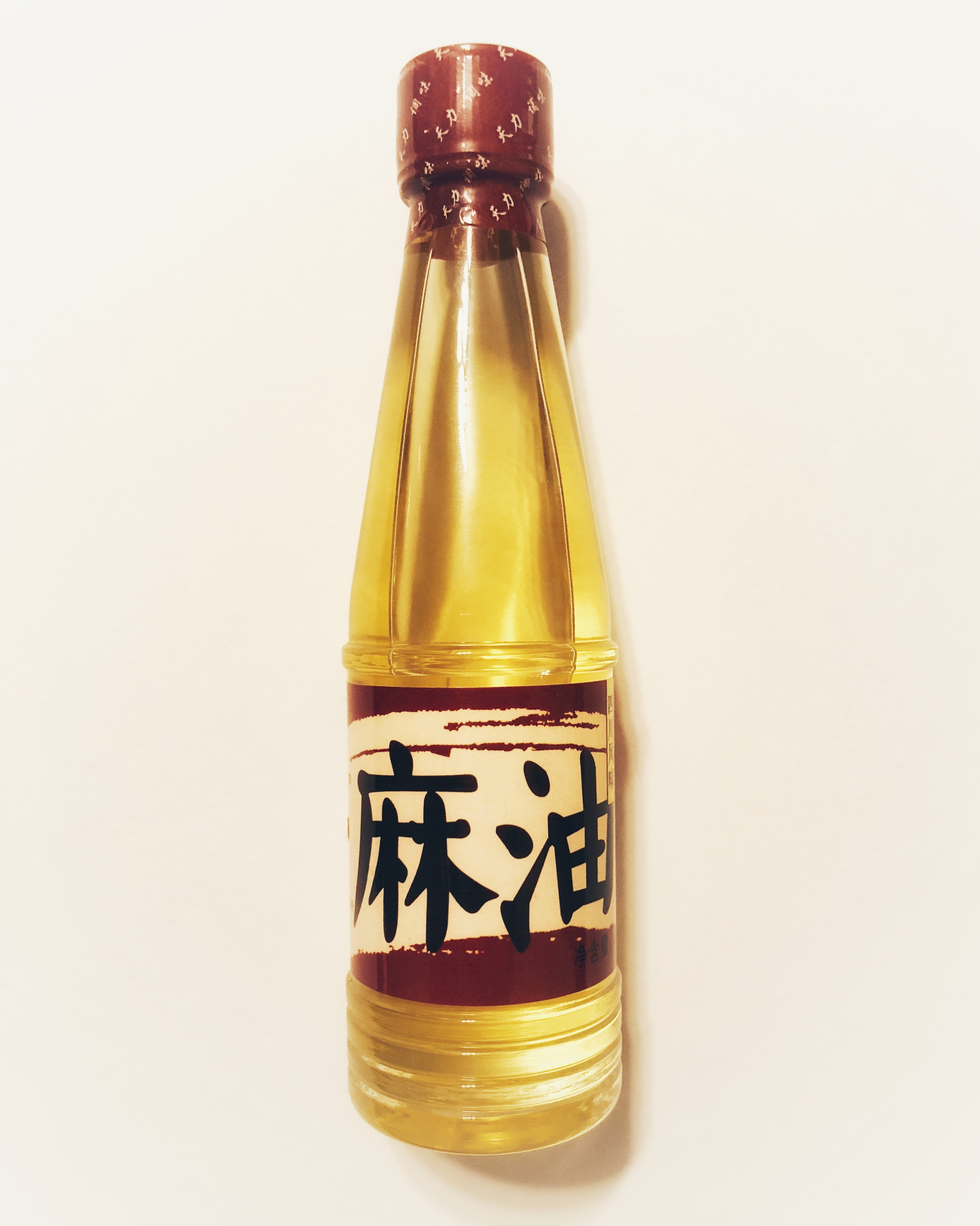 Máyóu (Sichuan pepper oil)